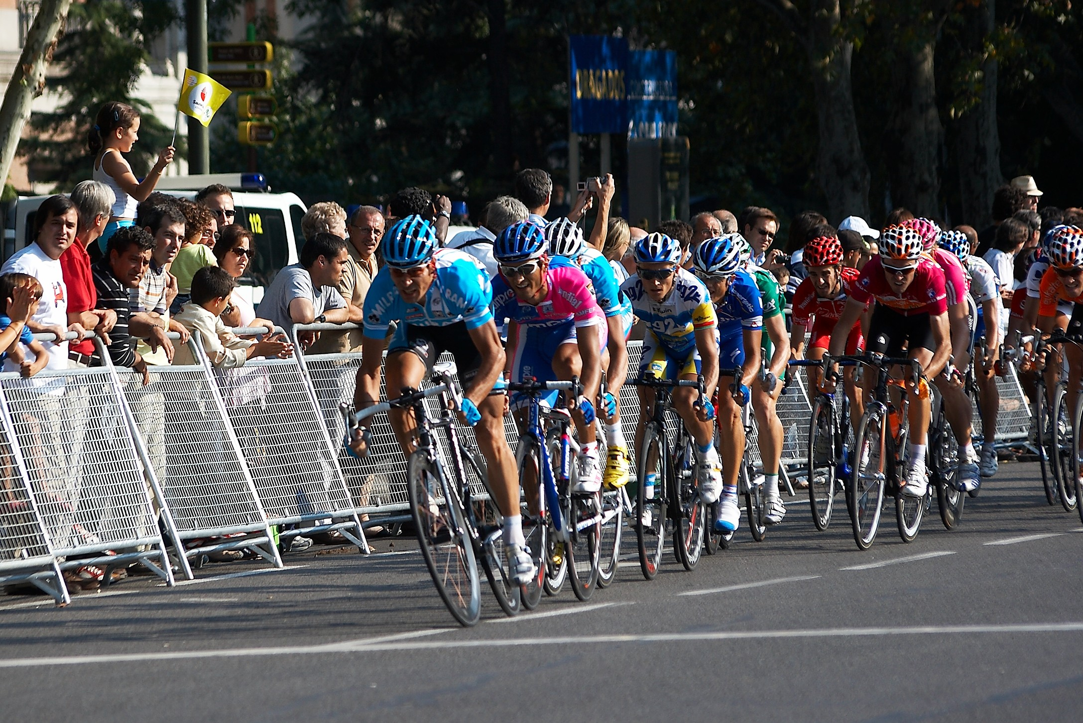 Erik Zabel (First/GER) and Daniele Benatti (Second/ITA), 2007 Vuelta a España, Madrid, Spain.